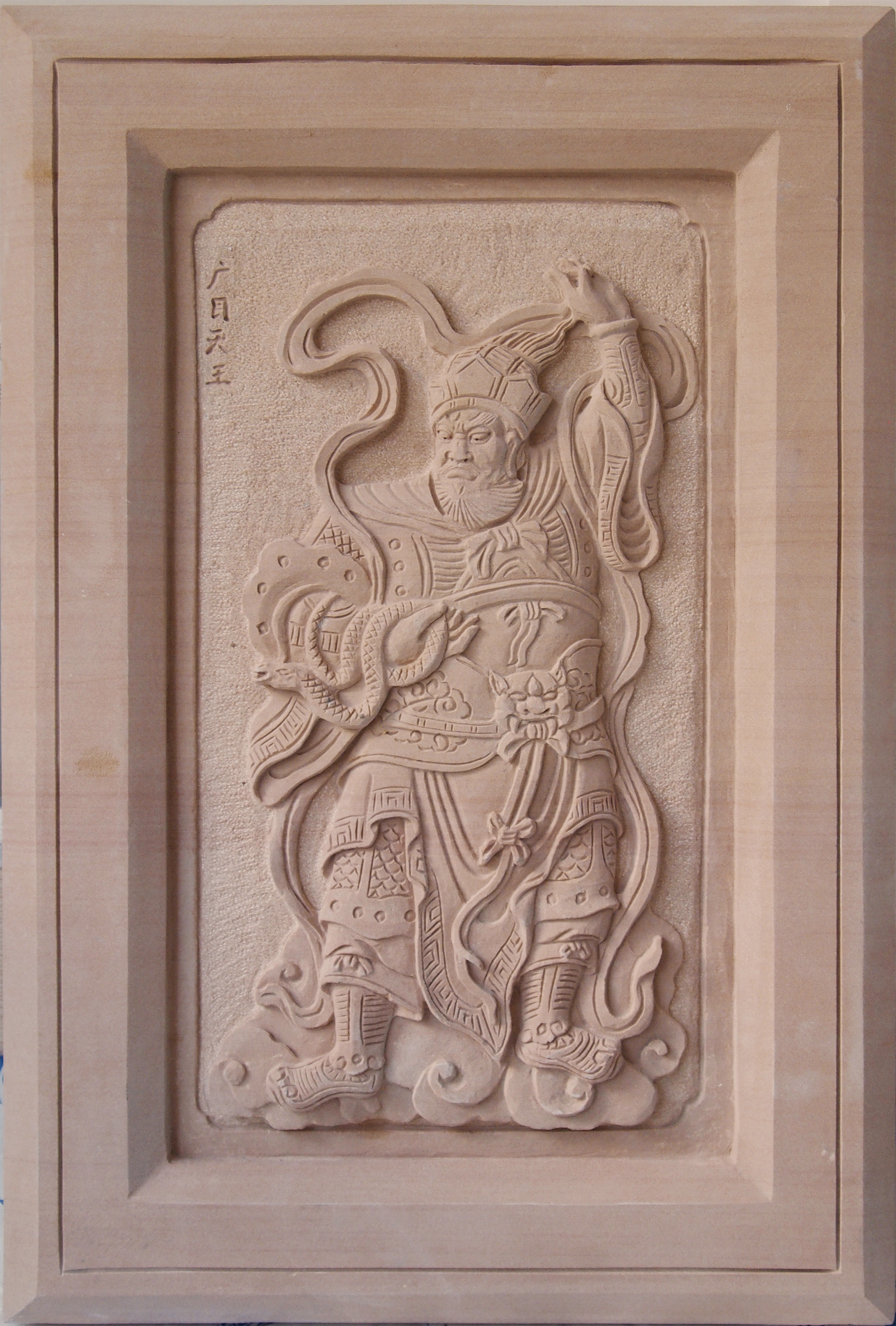 King of the west and one who sees all